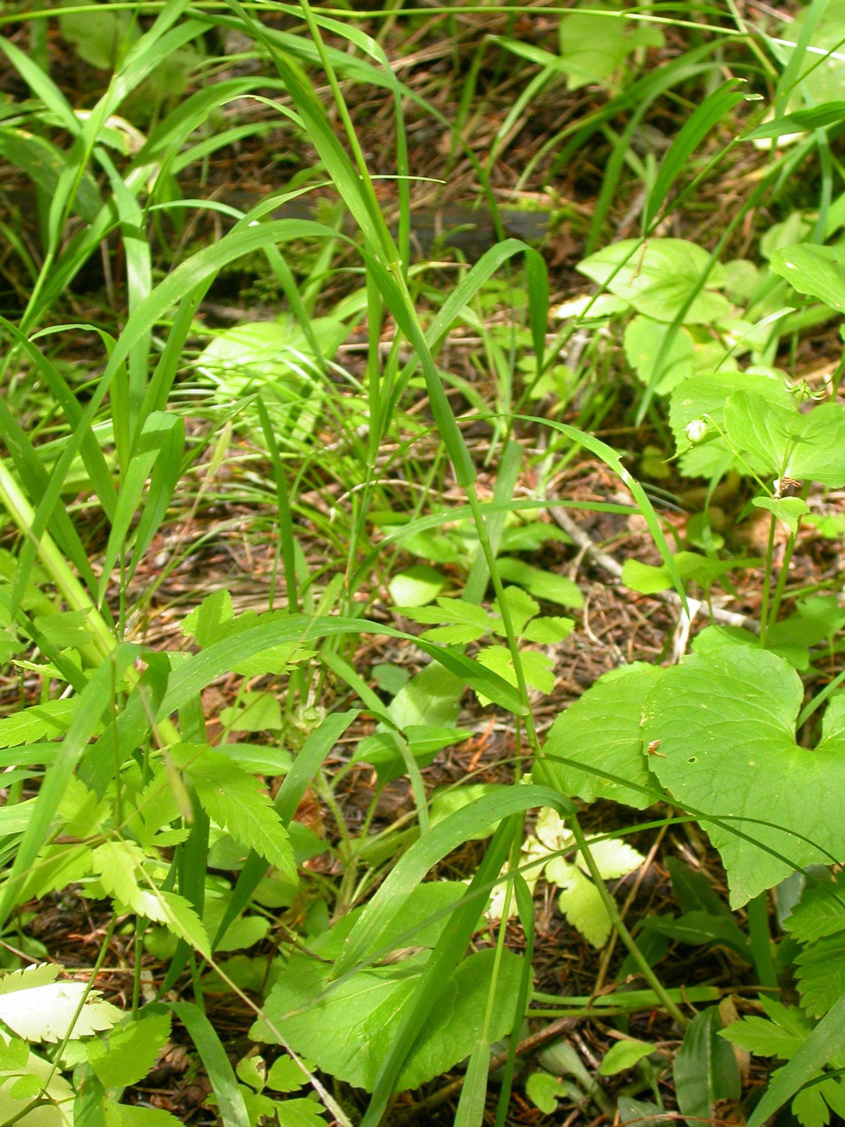 The leaves are broad (well over 5 mm wide) and lax.